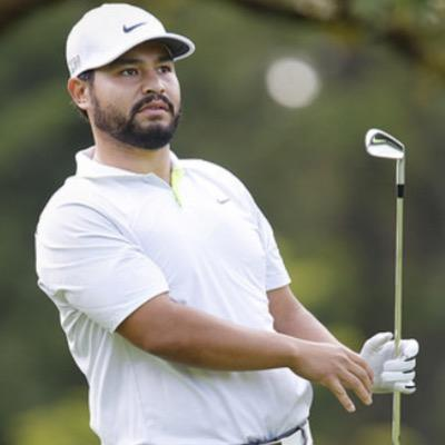 Picture of JJ